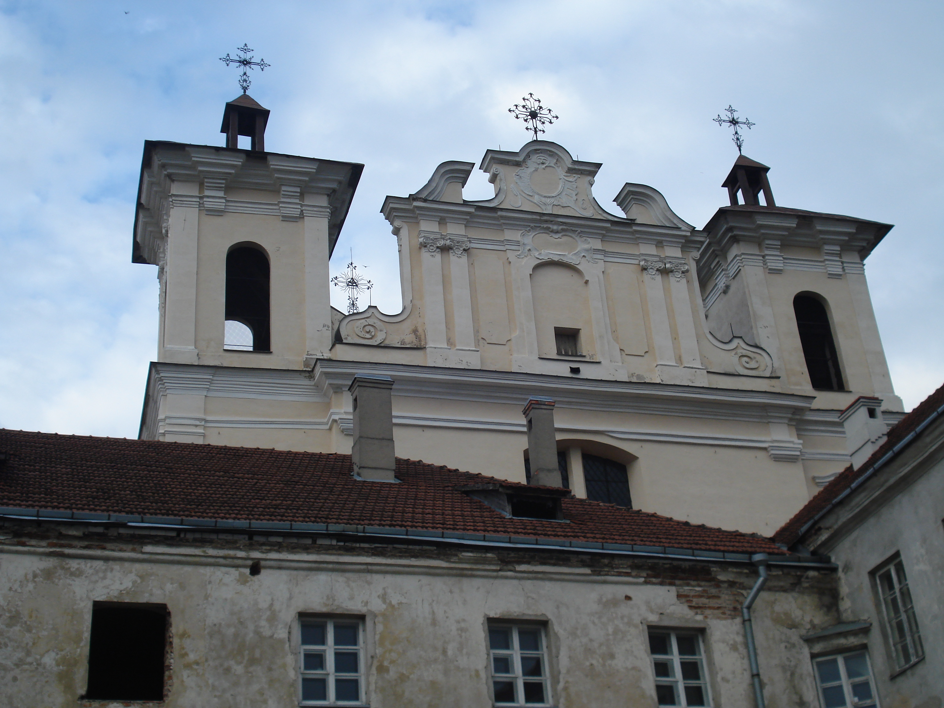 Church of the Holy Spirit in Vilnius. Western facade